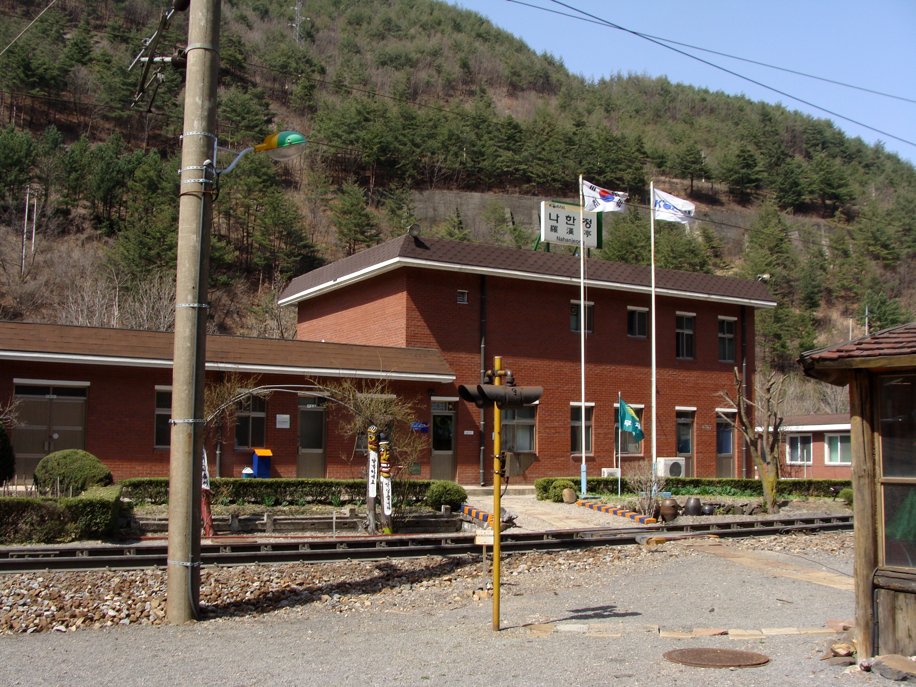 Nahanjeong Station of Yeongdong Railway Line, South Korea